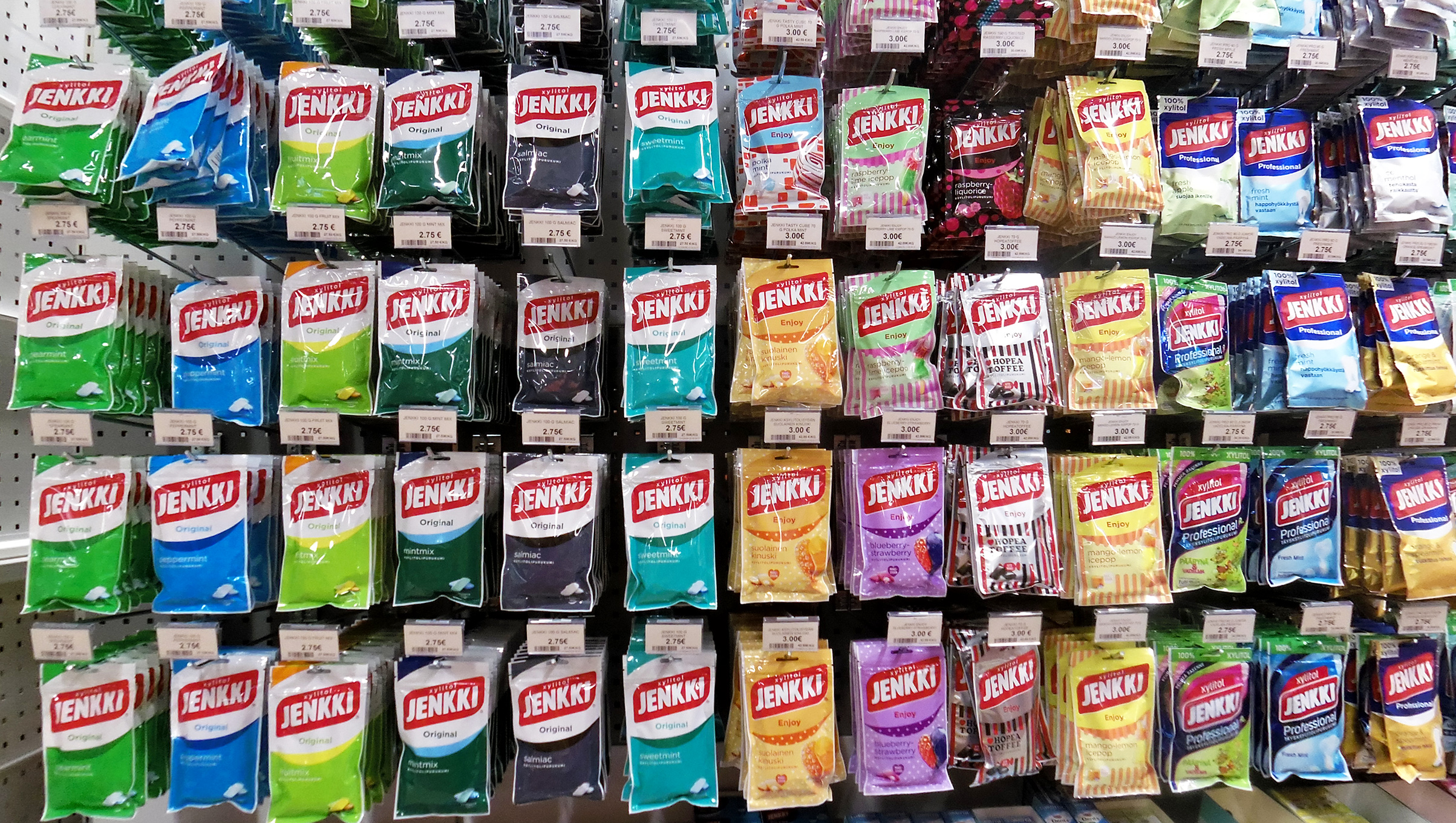 Jenkki xylitol chewing gum packages in Kärkkäinen, Jyväskylä.